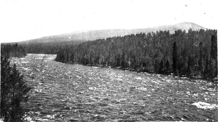 (59) "Niva River Looking South" — on the Kola Peinisula, Russian Lapland. Located in present day Murmansk Oblast, Northwest European Russia. 1919 image by Frank J. McGrath, from the Polar Bear Expedition at Kola Peinisula.